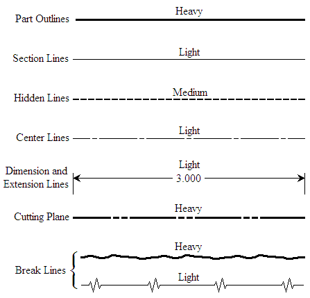 Diagram of Engineering drawing line types.